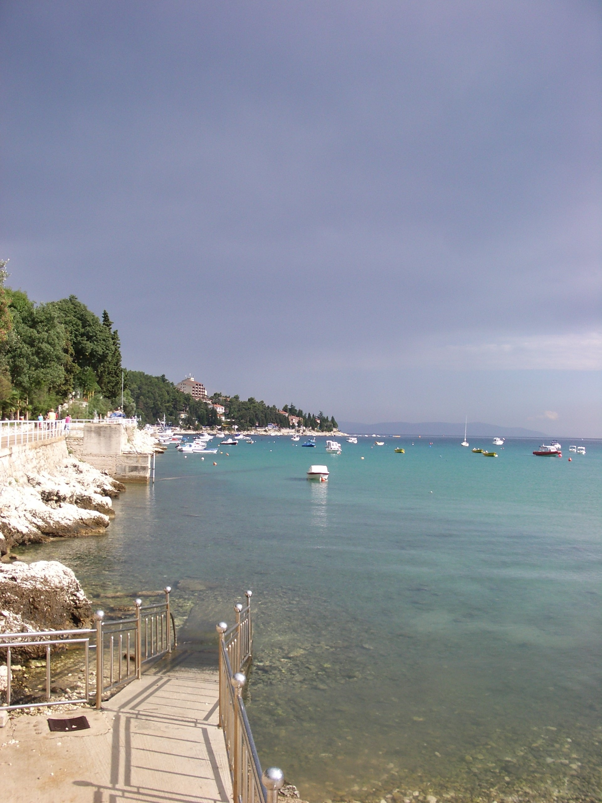 Port of Rabac, city of Istria, region in Croatia.